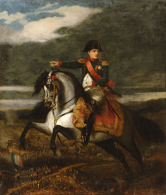 in the background: Battle of Wagram